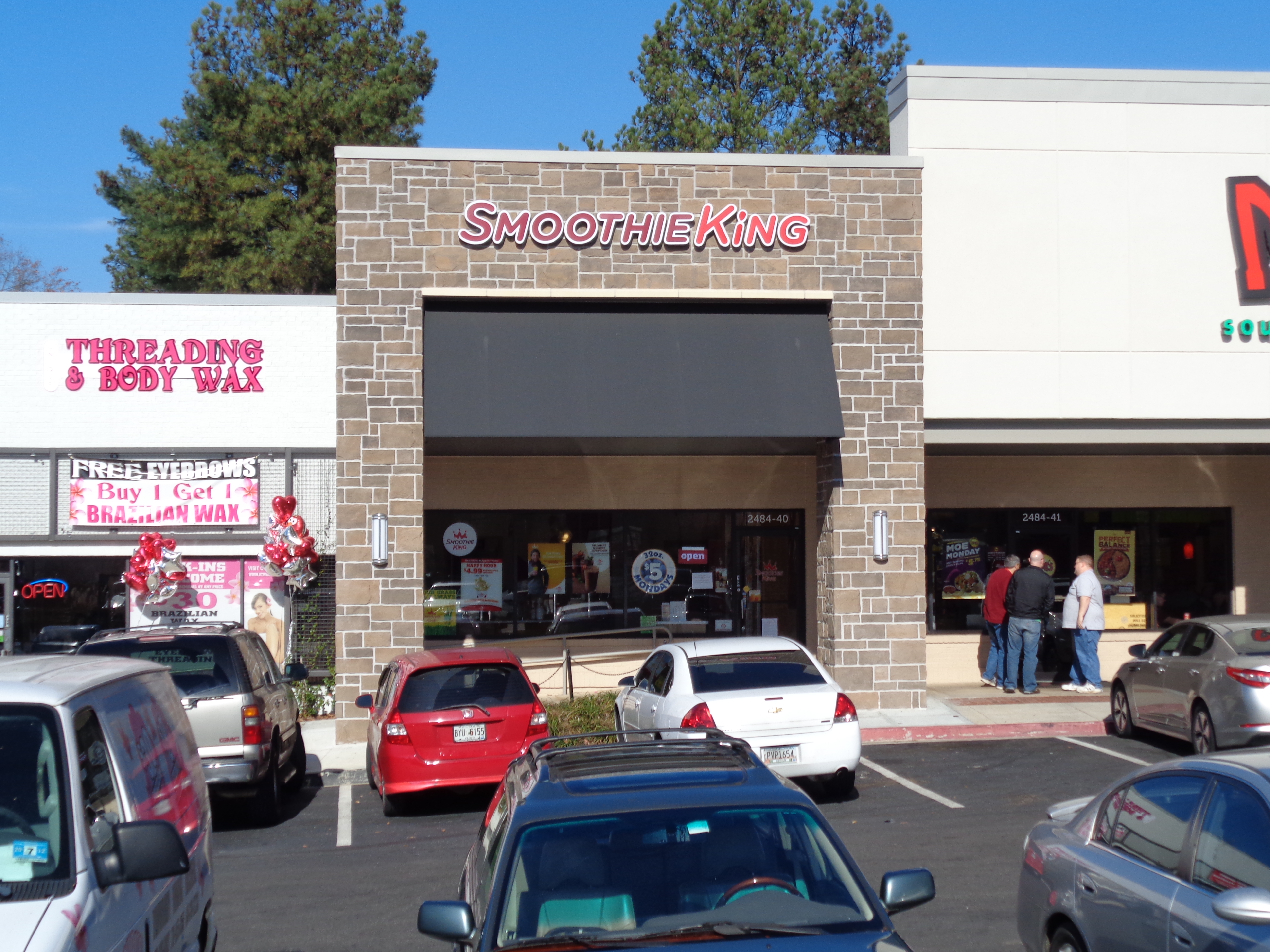 Smoothie King, Briarcliff Rd, Brookhaven, Dekalb County, Georgia